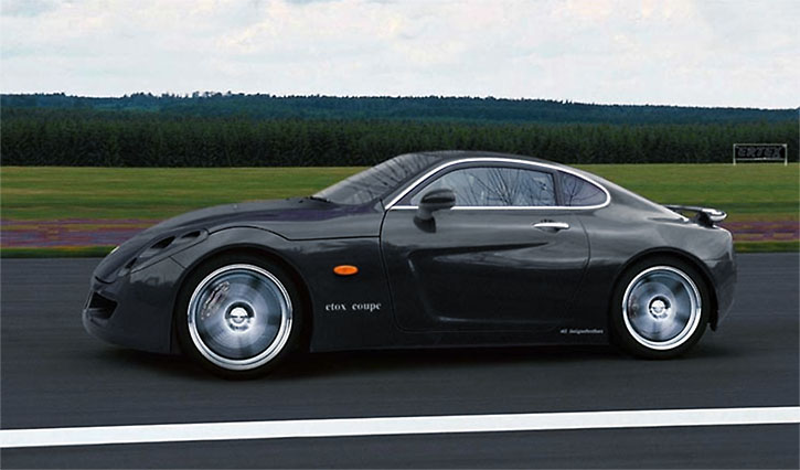 Etox Zafer is a Turkish sports car